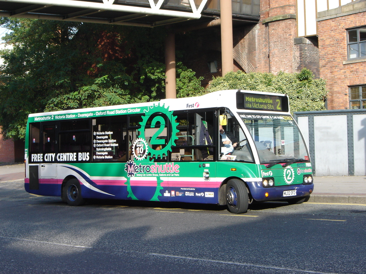 First Manchester bus 40330 (reg. ML02 OFZ), a 2002 Optare Solo M850 midibus, in Manchester on the free Metroshuttle service 2.